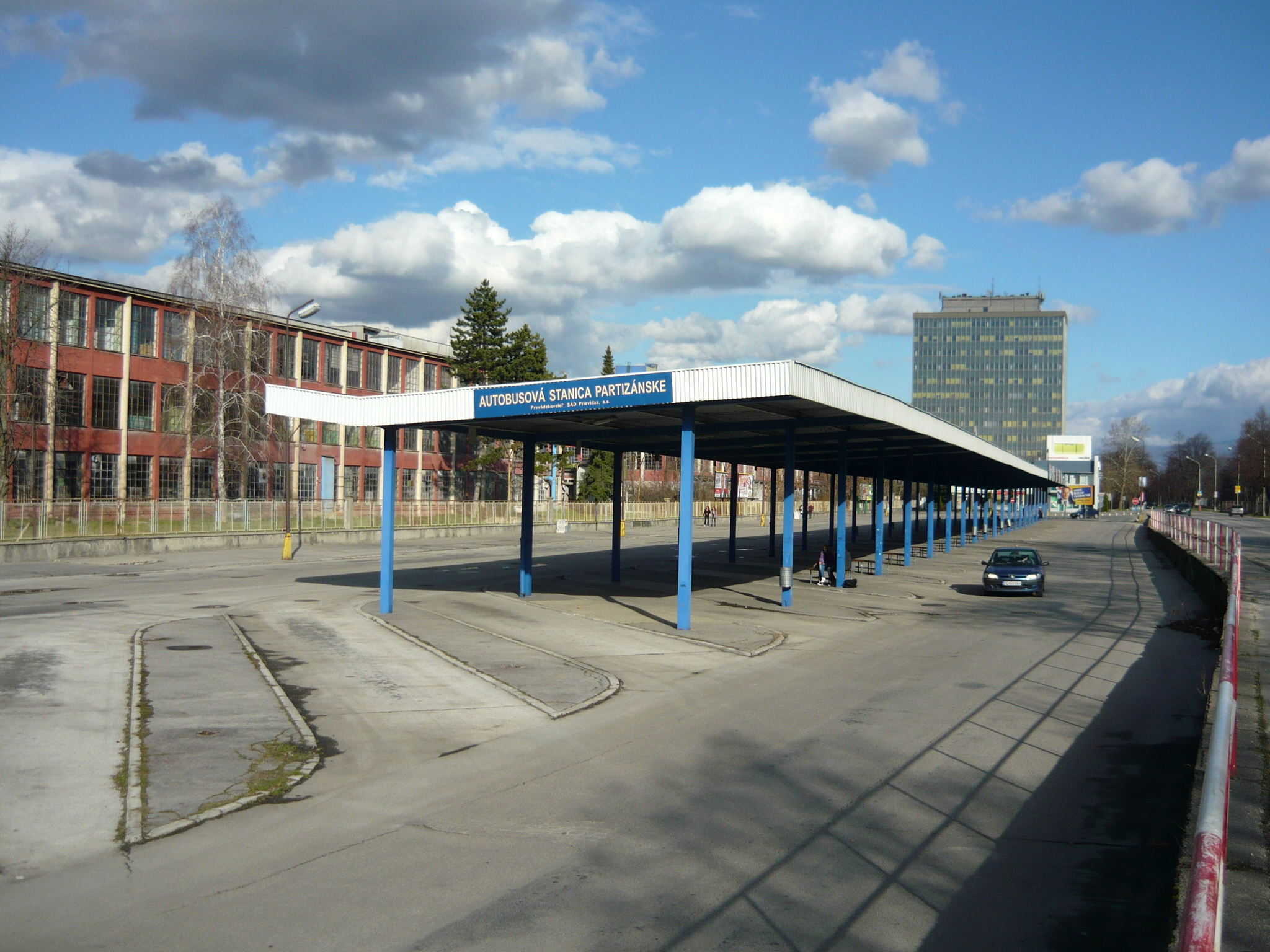 The bus station of Partizánske, Slovakia.